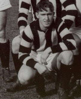 Photo of Roy Stabb from 1942-1944